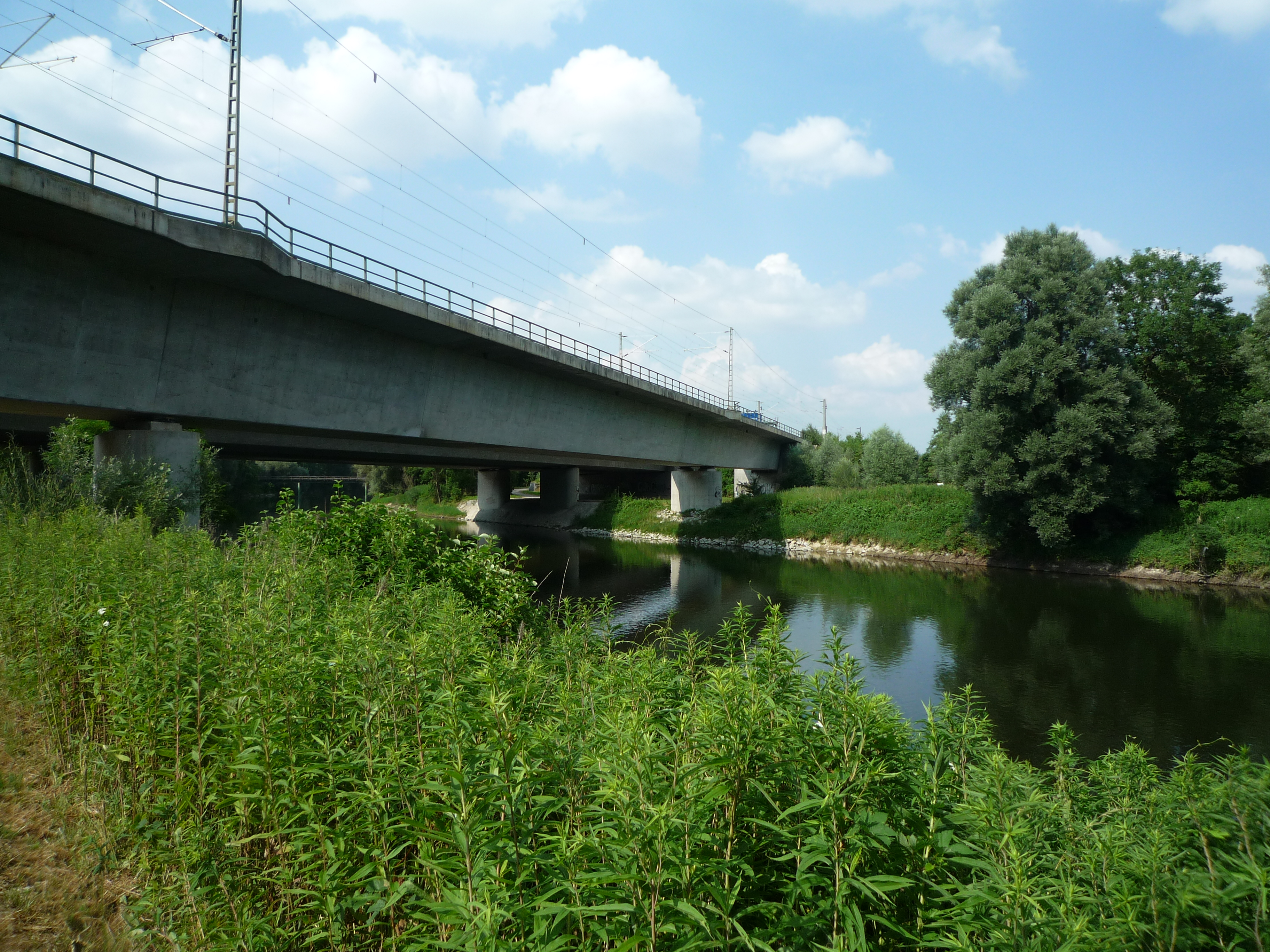 Railway bridge over the Isar near Achering